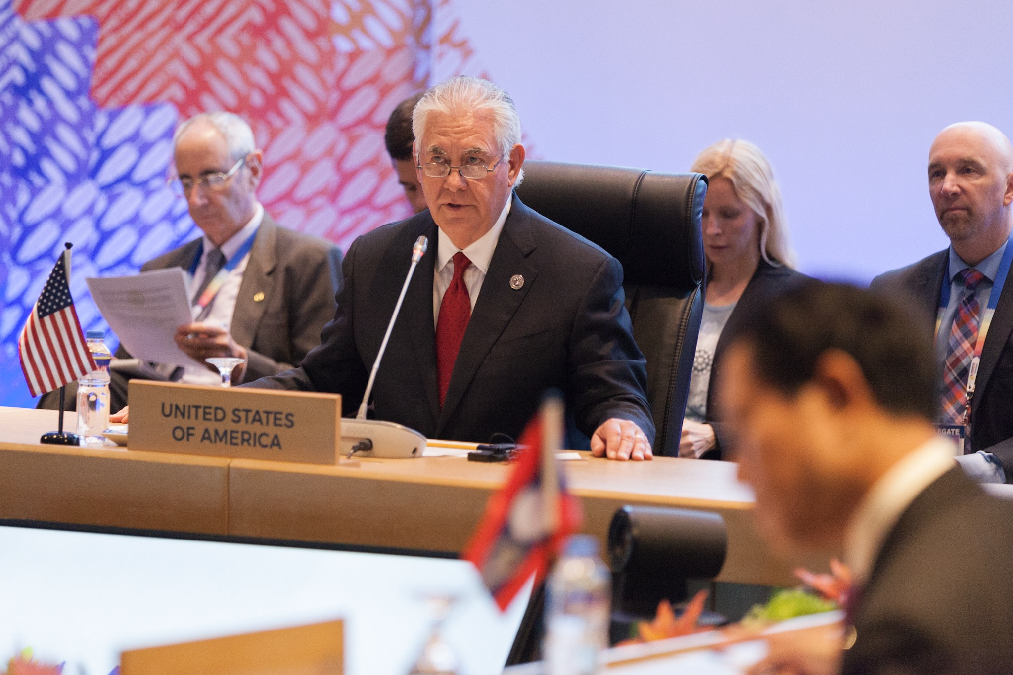 U.S. Secretary of State Rex Tillerson delivers remarks at the 10th Lower Mekong Ministerial Meeting in Manila, Philippines on August 6, 2017. The Lower Mekong Initiative (LMI) strengthens cooperation among member countries in the areas of environment, health, education, and infrastructure development and builds on common interests. [State Department photo/ Public Domain]